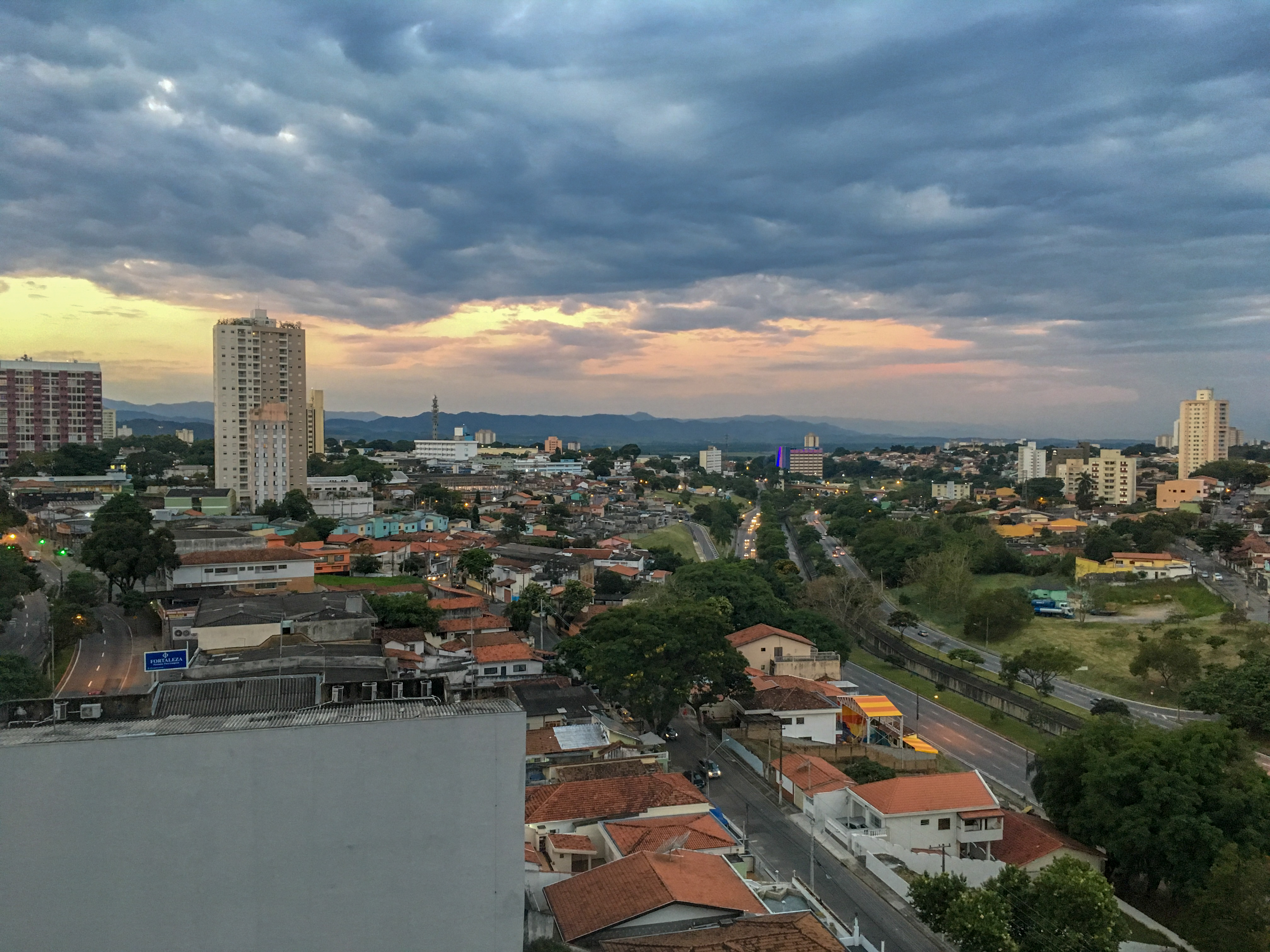 At São José dos Campos, Brazil